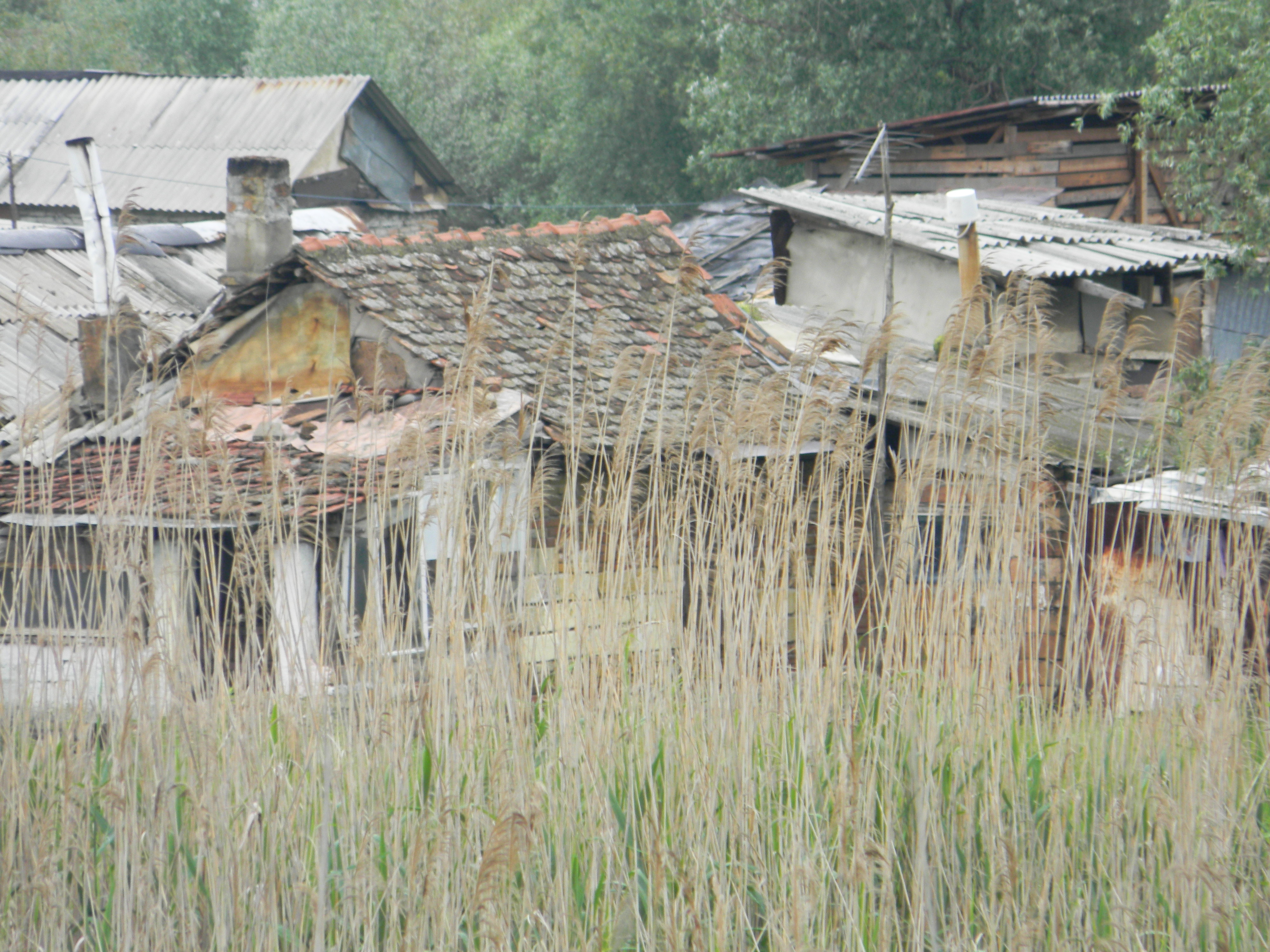 Gypsy settlement near Pančevo